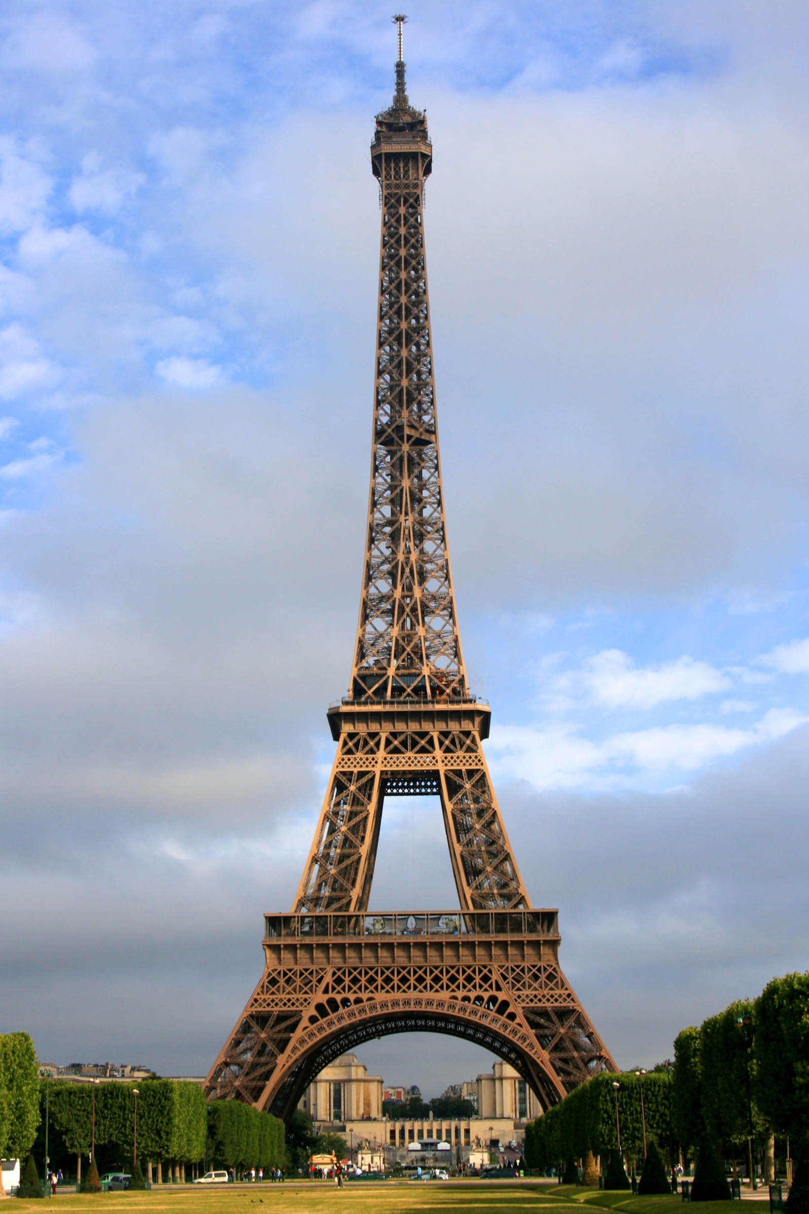 The Eiffel Tower, Champ de Mars, 5 Avenue Anatole France, 75007 Paris, France